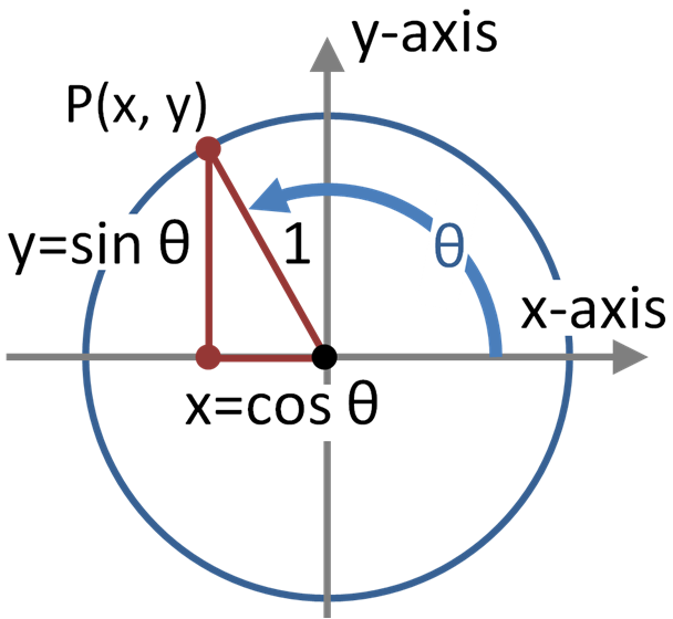 Unit circle showing sine and cosine functions for an oblique angle θ